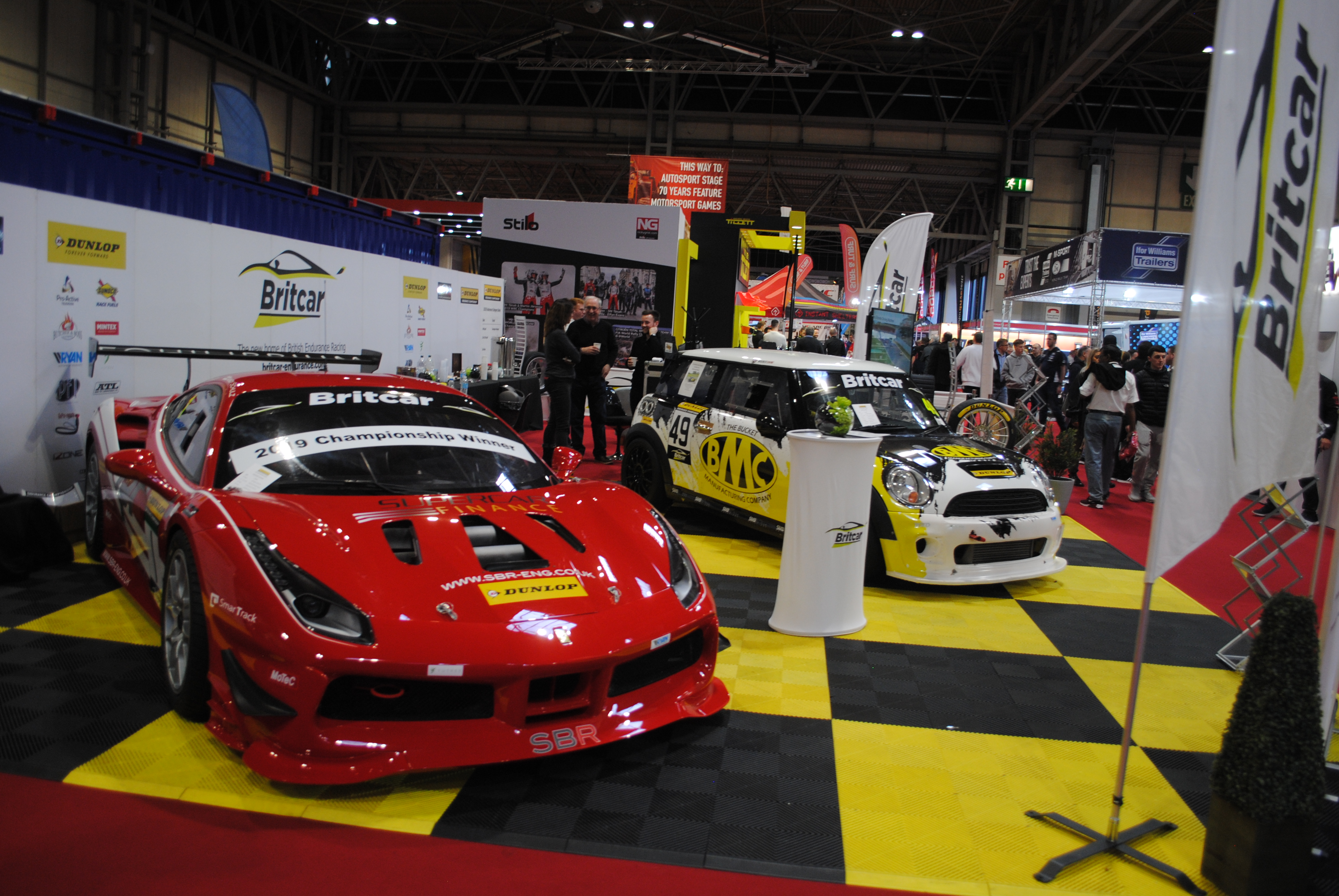 The Britcar stand at Autosport International 2020 at the NEC. At the stand are a Ferrari 488 Challenge and a Mini JCW.